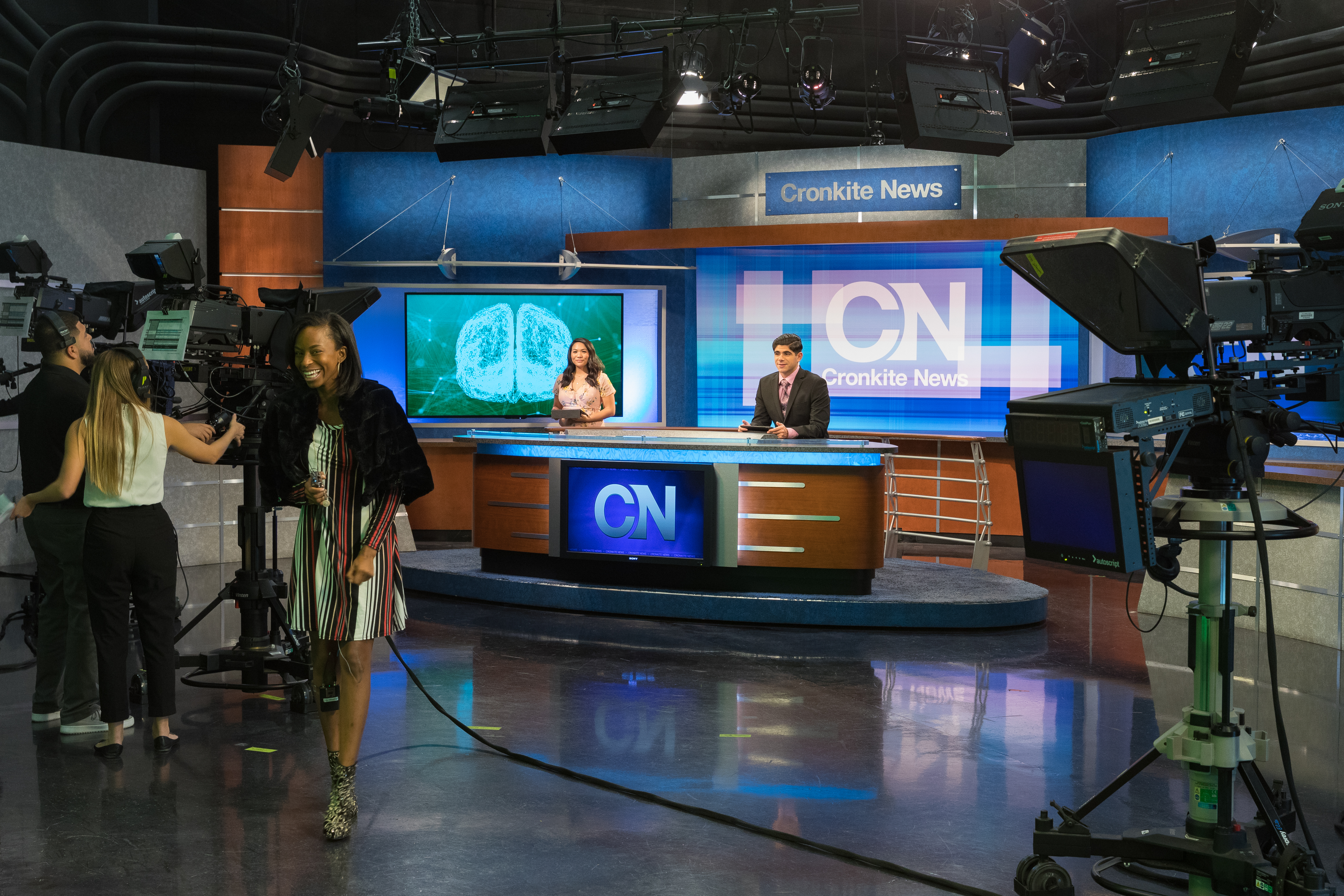 Recording of Cronkite News at the Walter Cronkite School of Journalism and Mass Communication, Arizona State University, Phoenix, Arizona